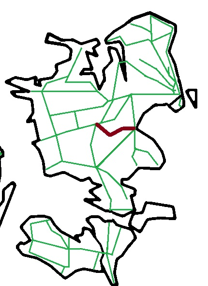 Map of railways on Zealand in Denmark with the private railway Køge-Ringsted Banen in brown.